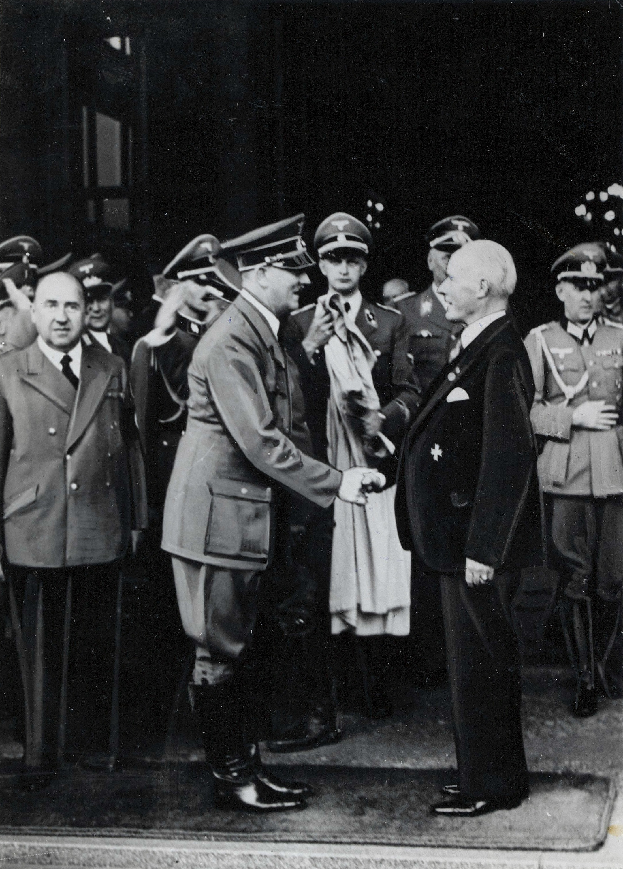 Gustav Krupp von Bohlen und Halbach (1870-1950) and Adolf Hitler. In the Villa Hügel in Essen Adolf Hitler handed Gustav Krupp the gold medal of the NSDAP